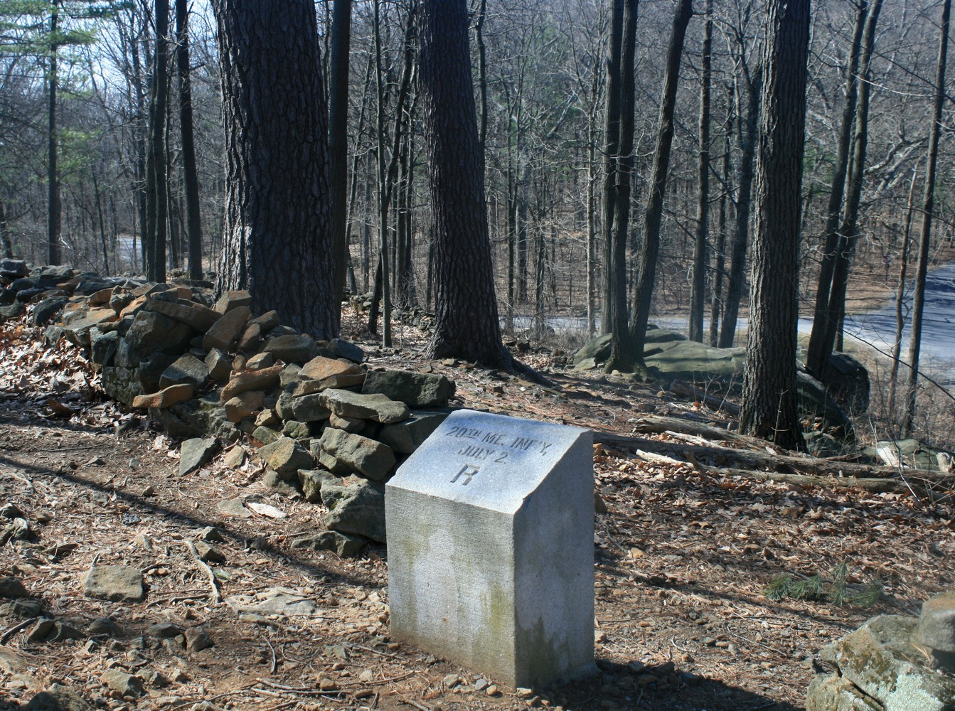 Gettysburg battelfield, Little Round Top, right flank marker of 20th ME infantry. (Site of Chamberlain last charge)